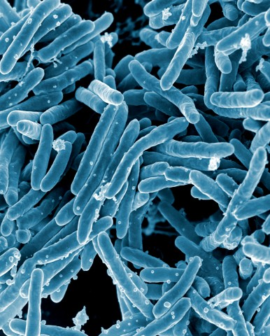 Scanning electron micrograph of Mycobacterium tuberculosis bacteria, which cause tuberculosis. Credit: NIAID